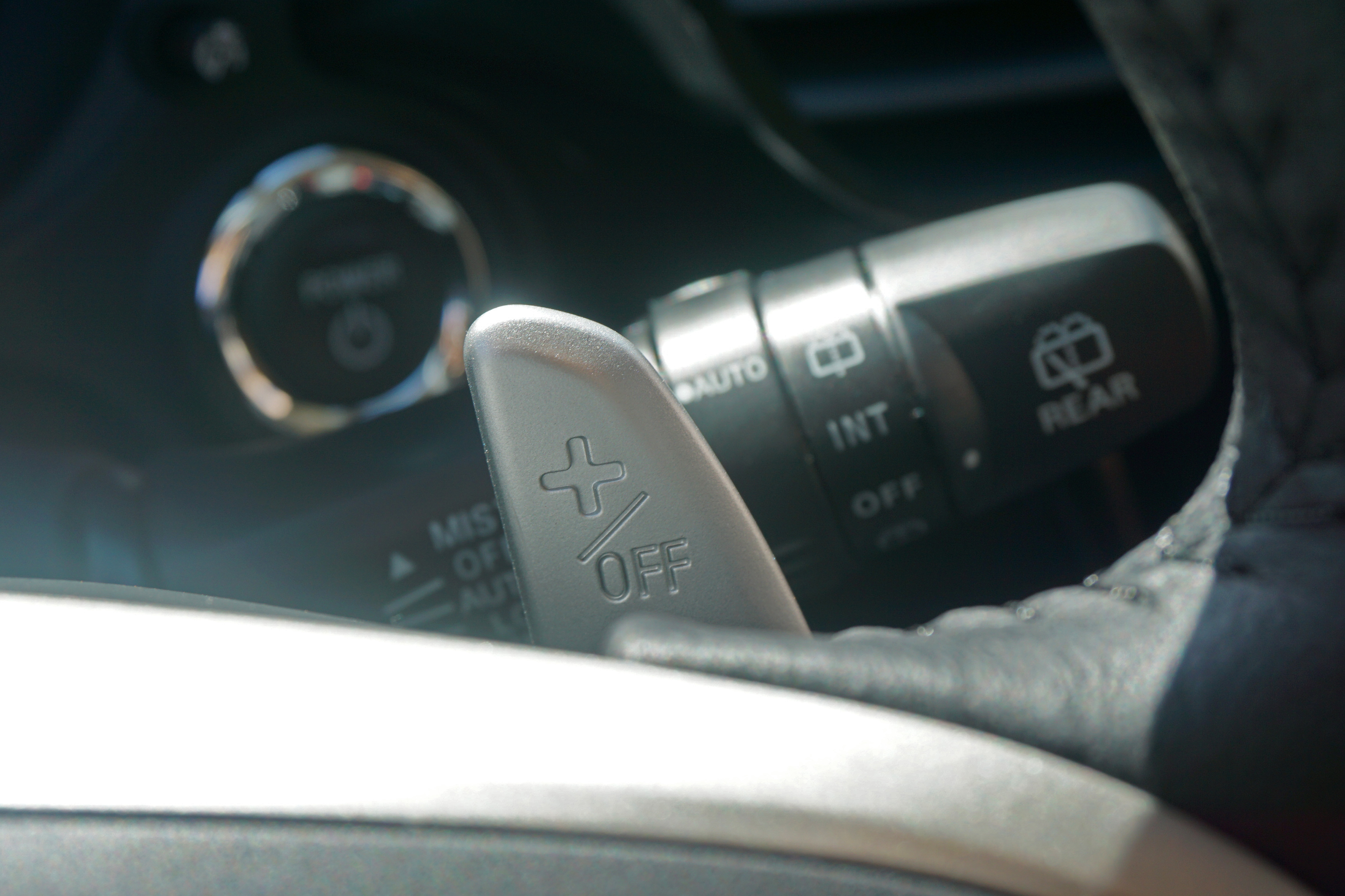 Right regenerative braking paddle, 2014 Mitsubishi Outlander P-HEV. Located on the steering wheel, the regenerative braking level selector (paddle type) lets the druver adjust regenerative braking strength to any of six settings.